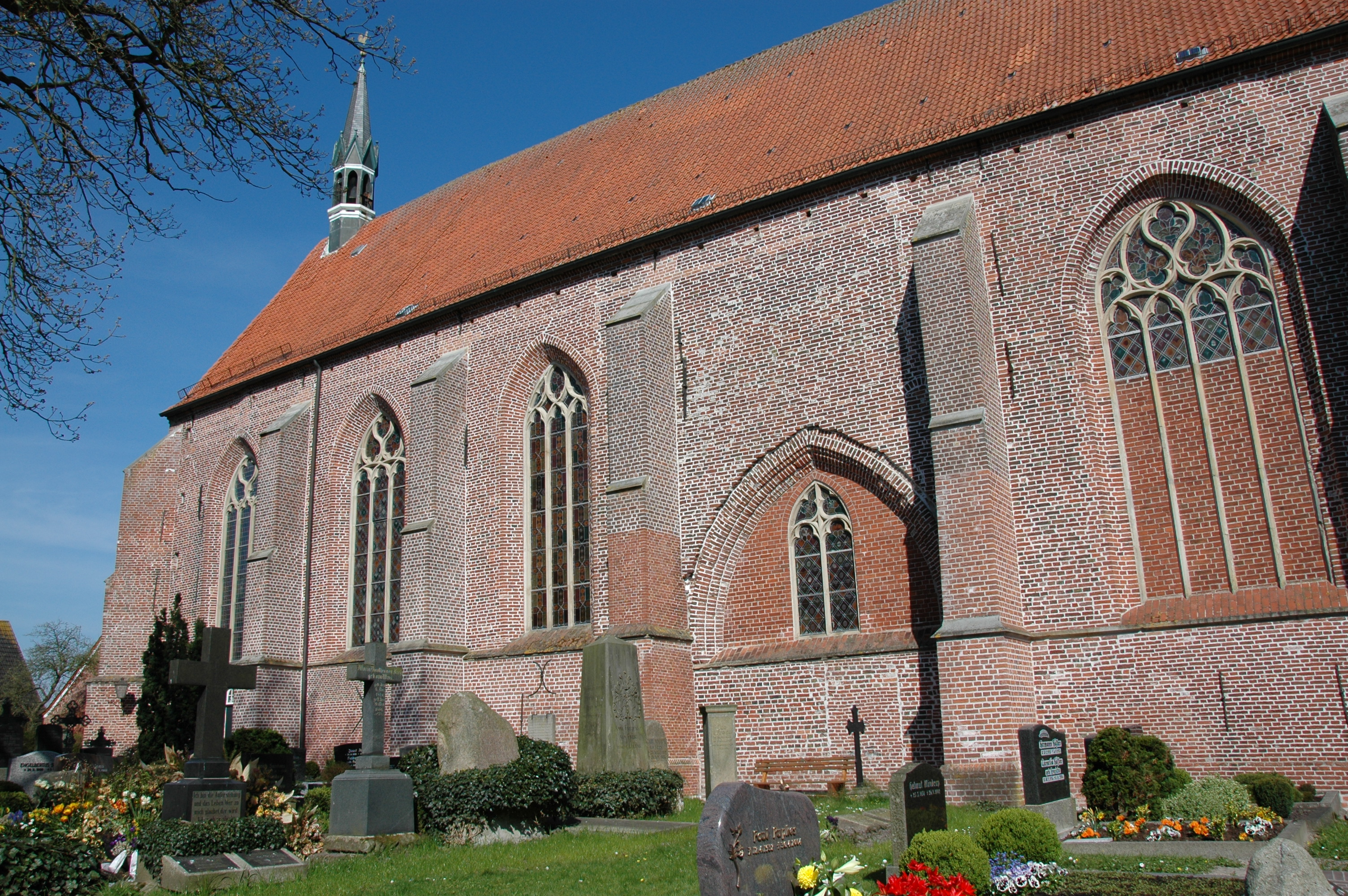 Die ev.-ref. Kirche in Hinte, Landkreis Aurich, Ostfriesland. The prot.-ref. church in Hinte, near Emden, Lower Saxony. Aufnahme vom 14. April 2007 Picure taken 14th of April, 2007, by Rolf Drewes